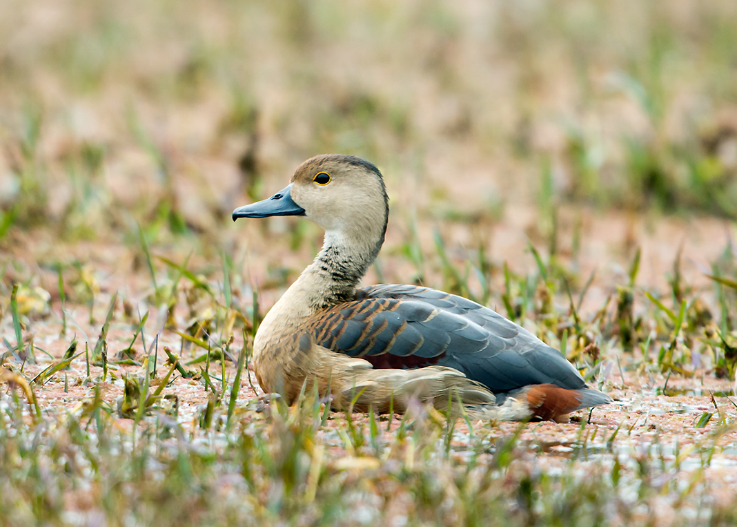 Dendrocygna javanica (Lesser Whistling Duck or Lesser Whistling Teal) is a common water bird in most parts of India. Seen here in Keoladeo National Park, Bharatpur.